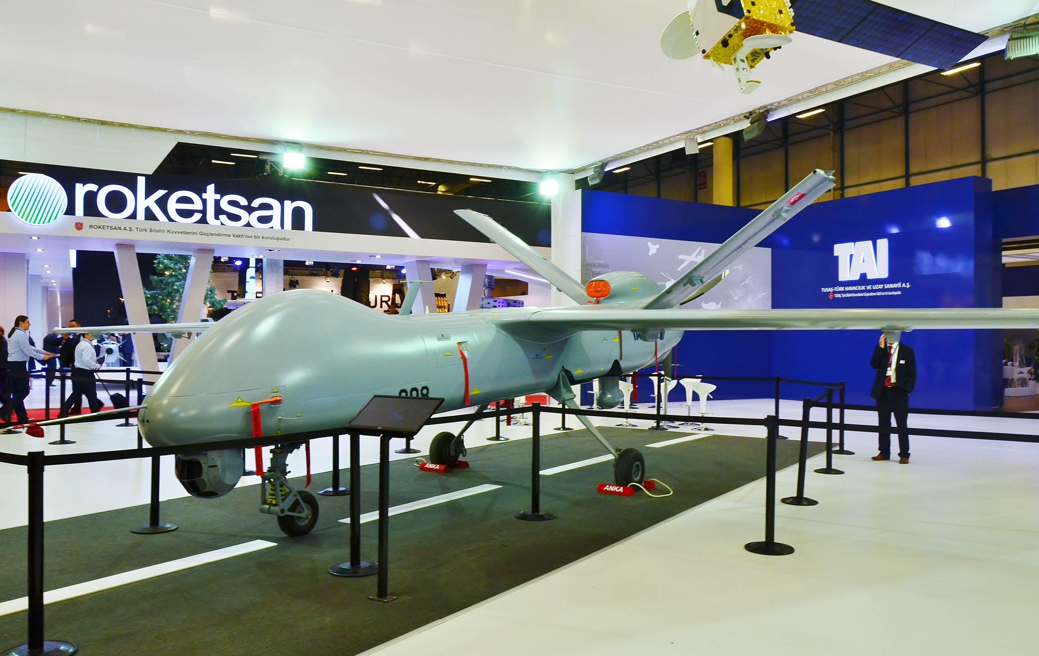 Unmanned aerial vehicle ANKA of Turkish Aerospace Industries at IDEF 2015